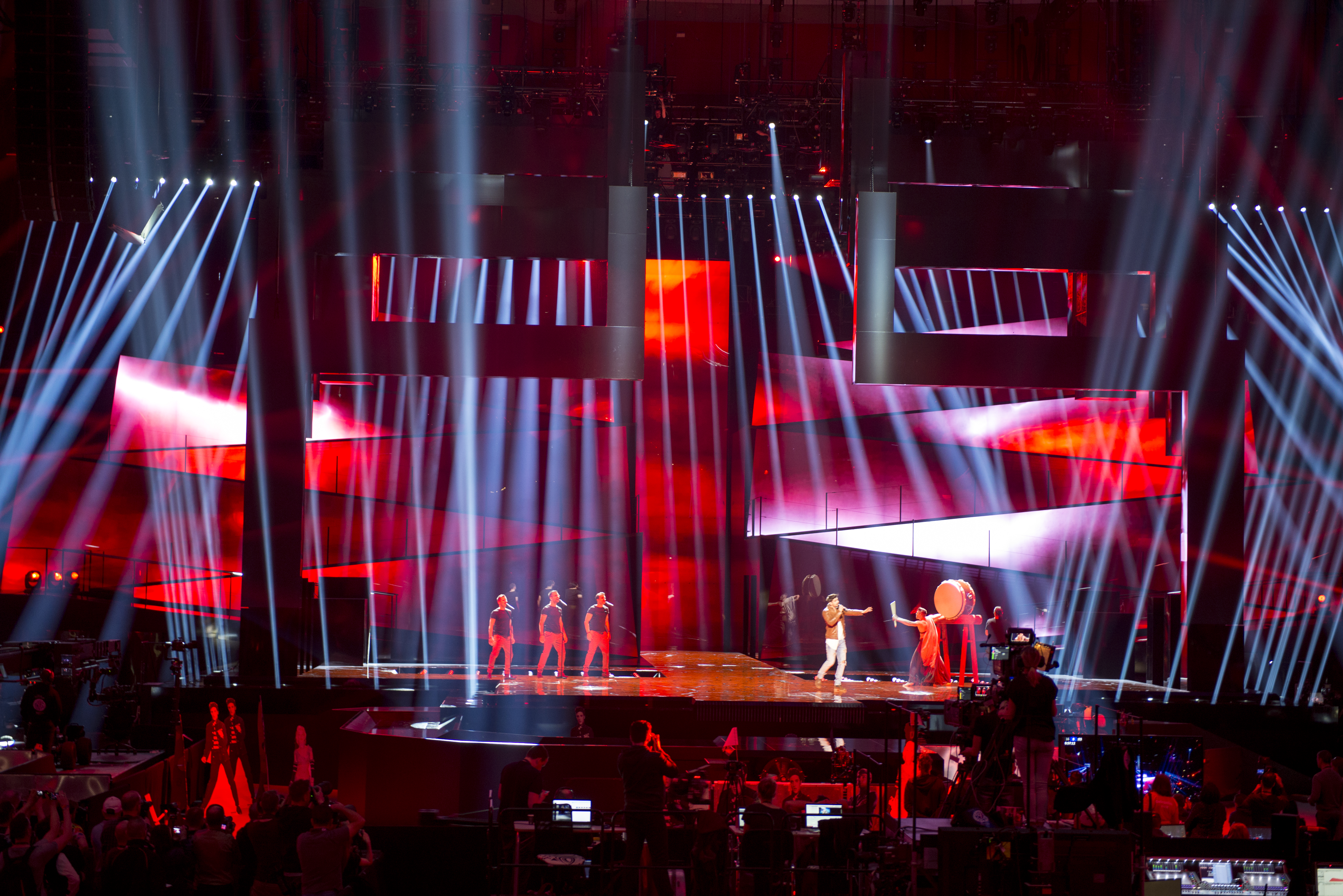 Freddie representing Hungary with the song "Pioneer" during a rehearsal before the first semi final of the Eurovision Song Contest 2016 in Stockholm. (Help translate this text)